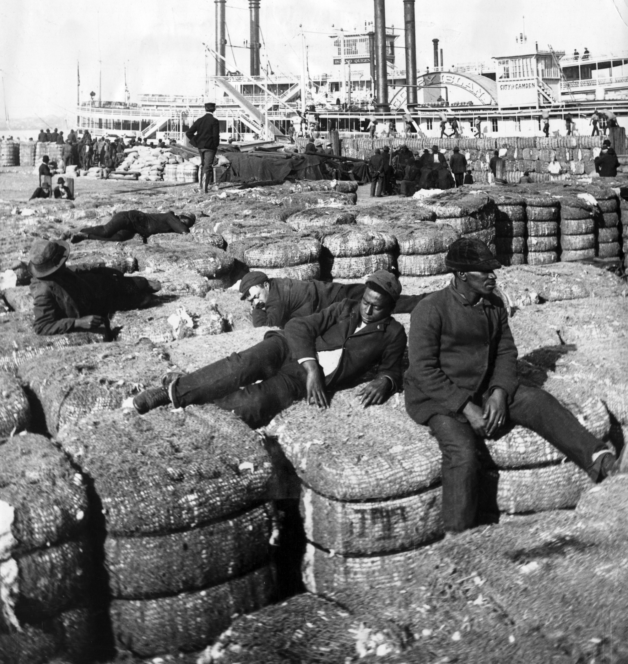 White and black dock workers resting on cotton bales in the port of New Orleans in 1902.